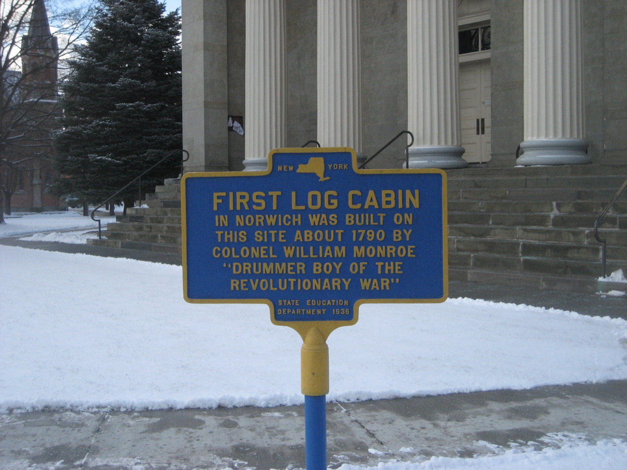 Historic marker of the first log cabin built in Norwich, NY. Site of Colonel William Monroe "Drummer Boy of the Revolutionary War" approximately 1790 cabin.